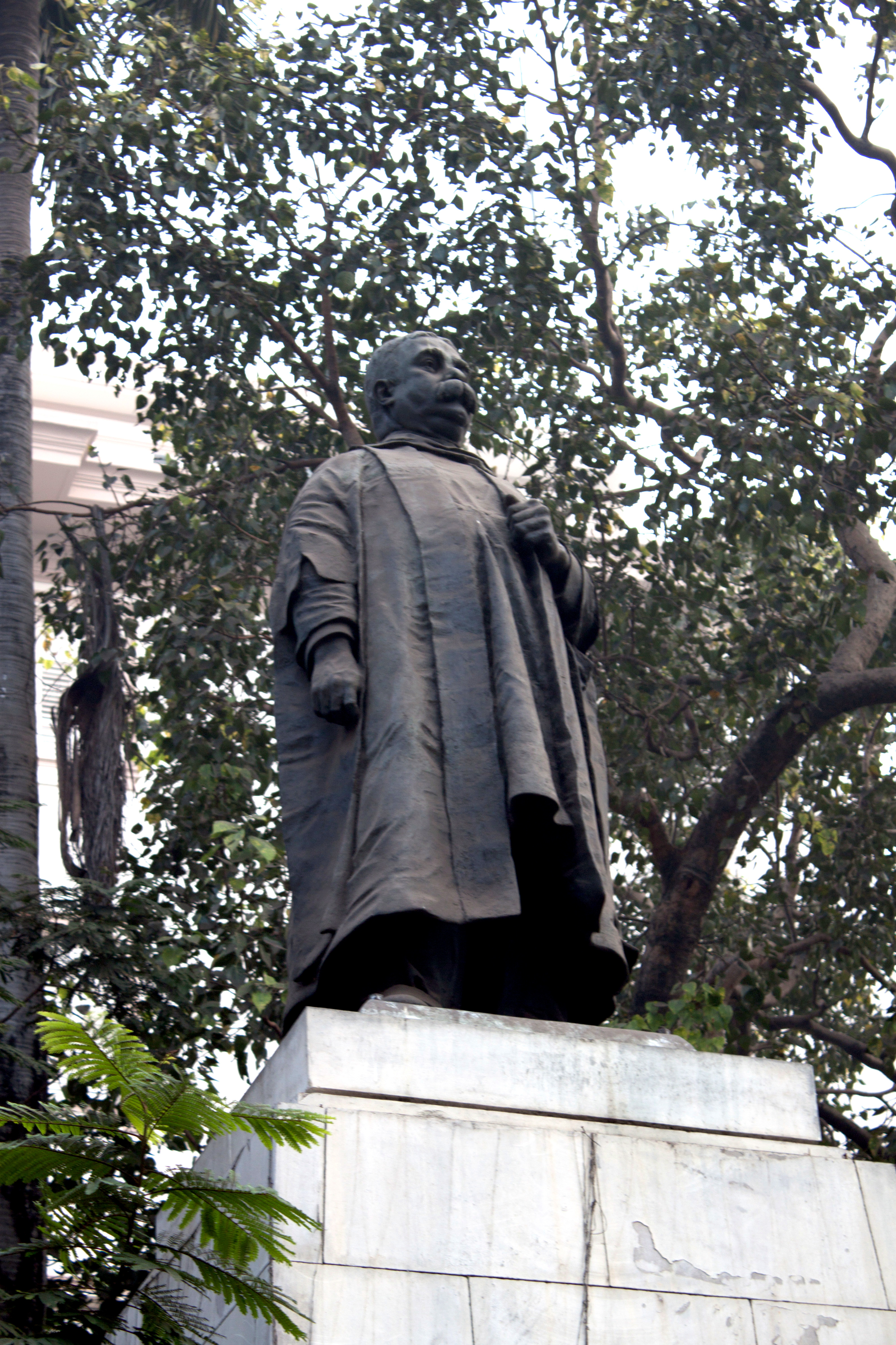 Statue of Ashutosh Mookerjee in front of the Statesman House